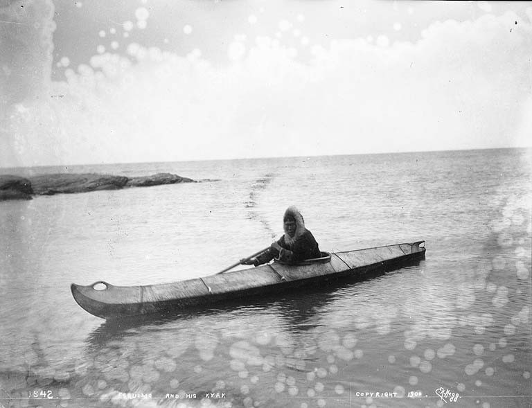 Caption on image: "Esquimo and his kyak" Original image in Hegg Album 14, page 28. Subjects (LCTGM): Kayaks--Alaska Subjects (LCSH): Eskimos--Alaska